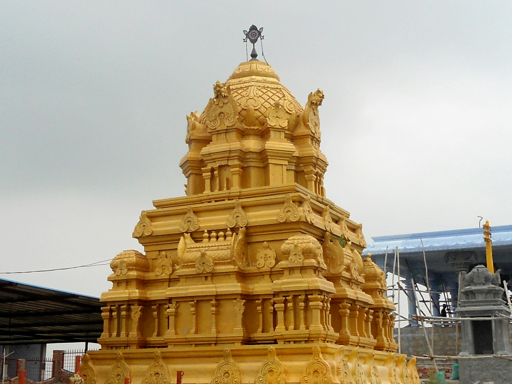 Mastyagiri Narasimha Temple, Vemulakonda, Valigonda Mandal, Nalgonda district, Andhra Pradesh